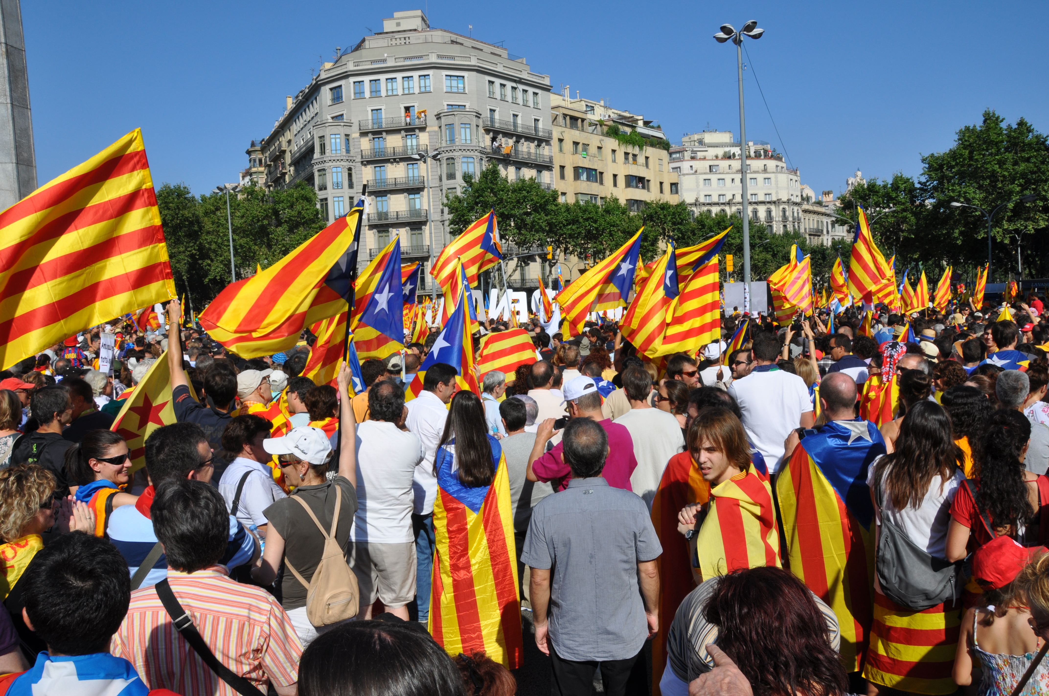 Demonstration "Som una nació. Nosaltres decidim"